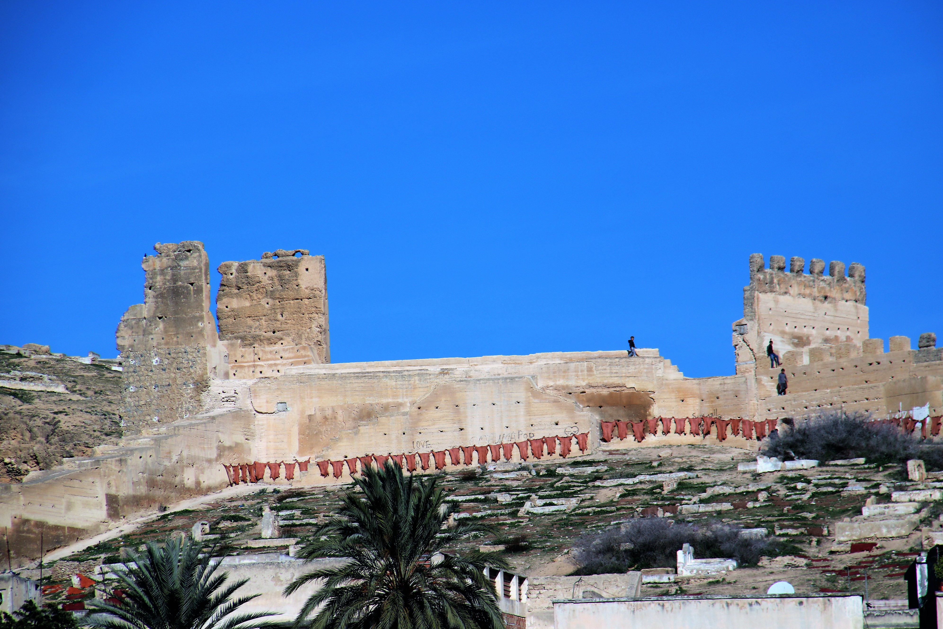 Visit in Fes December,27th 2019 to January 1st,2020